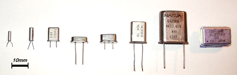 Various quartz oscillator crystals. On the right is an integrated crystal oscillator that mounts on a circuit board